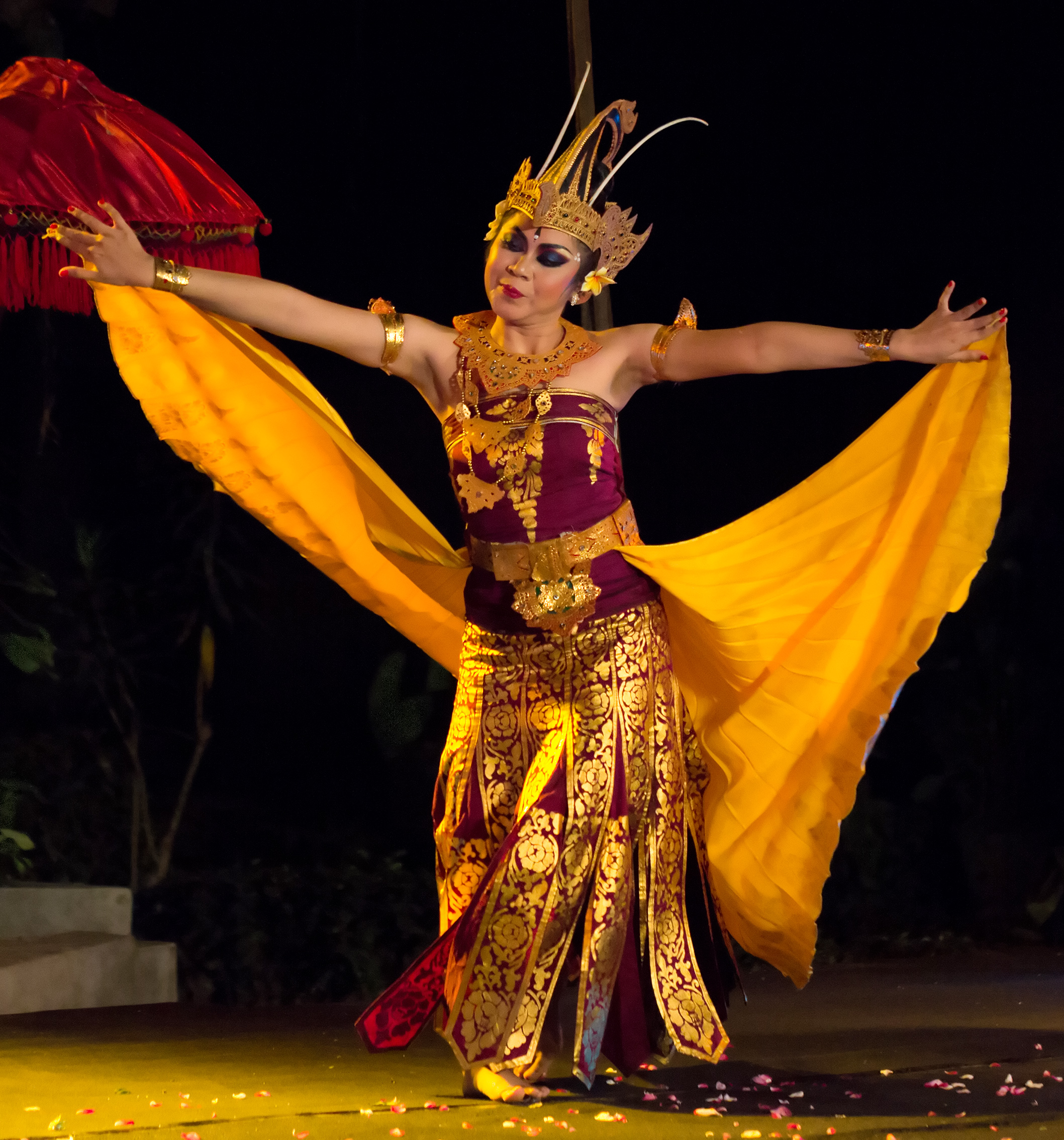 Sanata Dharma University's Sekar Jepun, a Balinese dance troupe, celebrates its 17th anniversary. Shown here is the Cendrawasih dance.